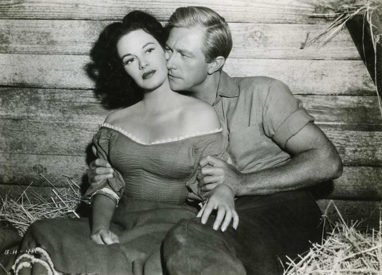 Patricia Medina and Richard Denning in the film The Buckskin Lady (1957) - publicity still (cropped : see source)